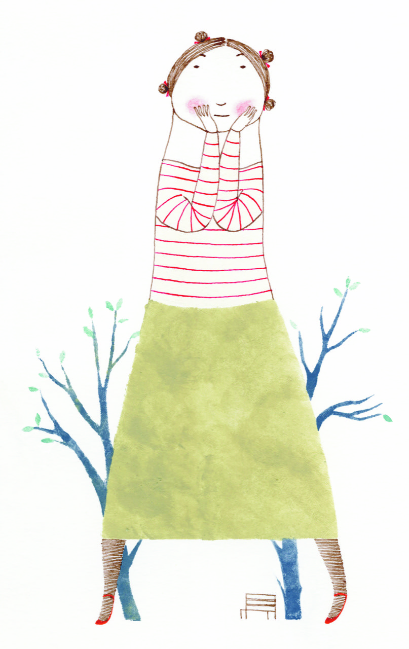 Iholdi (fictional character) by Elena Odriozola